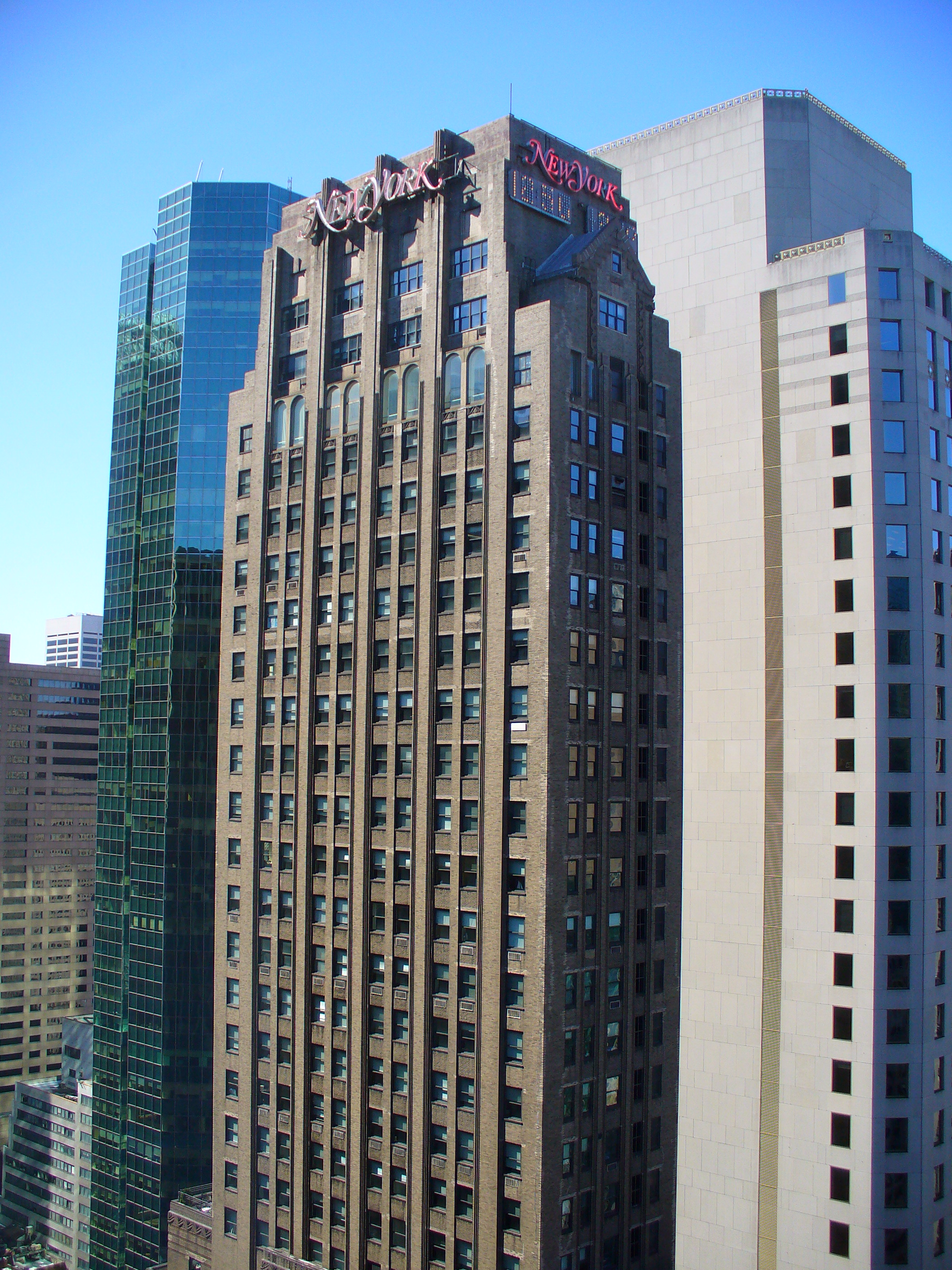 New York Magazine headquarters(444 Madison Avenue) by David Shankbone